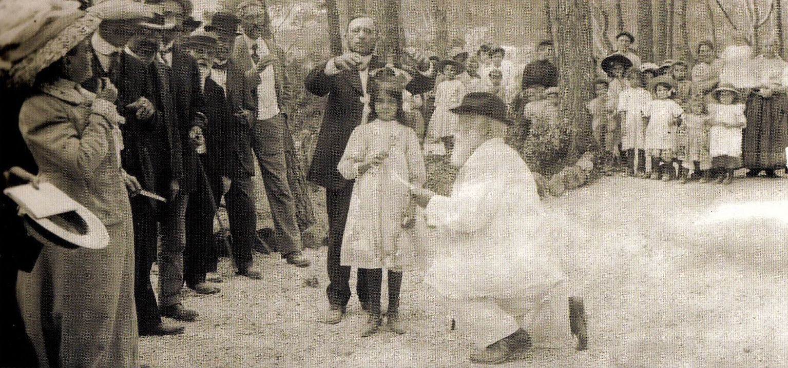 Angelo Mariani one knee on the ground in front of a little girl holds an object (key?). This young girl is crowned by Auguste Lutaud in the presence of an assembly. She is holding a scepter in her hand - with a trident at the top and perhaps a caduceus to the other.